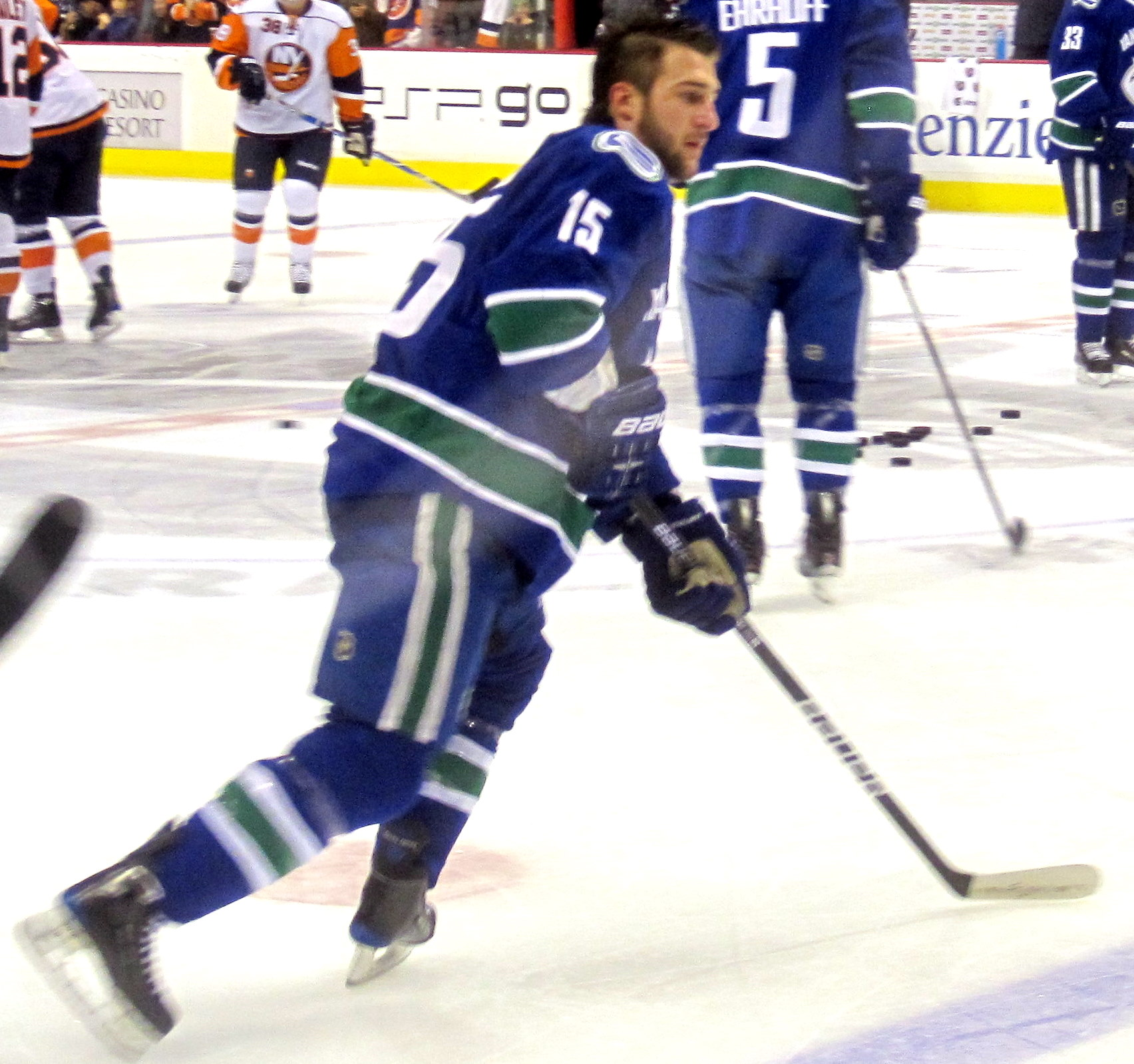 Vancouver Canucks forward Tanner Glass during a game against the New York Islanders on March 16, 2010, in Vancouver.